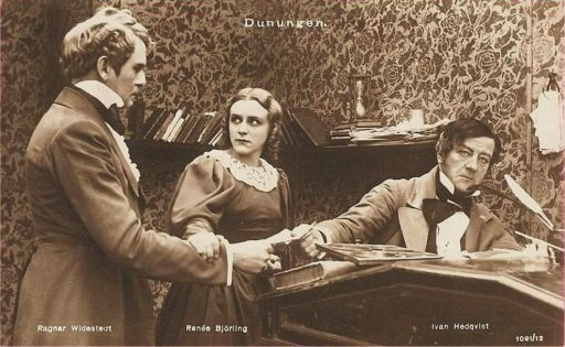 L. to R. : Ragnar Widestedt, Renée Björling, and Ivan Hedqvist in Dunungen - publicity still.